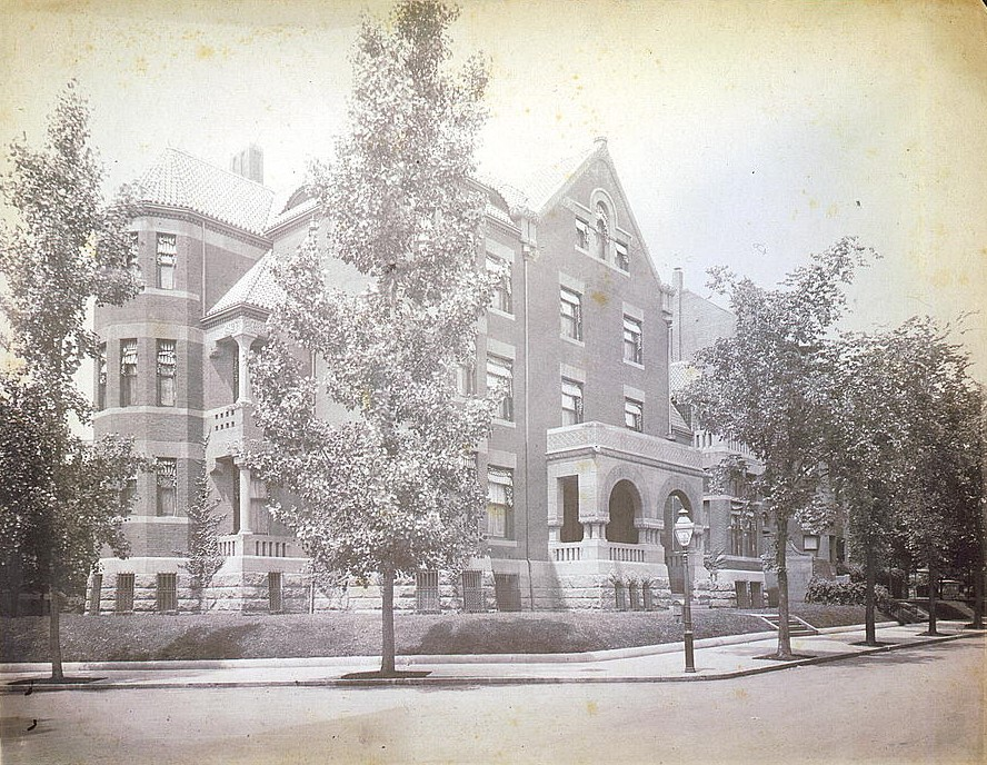 Title [Home of Mrs. Phoebe Apperson Hearst, 1400 New Hampshire Avenue, N.W., Washington, D.C.] Contributor Names Johnston, Frances Benjamin, 1864-1952, photographer Created / Published [between 1890 and 1920(?)] Subject Headings - Hearst, Phoebe Apperson,--1842-1919--Homes & haunts - Houses--Washington (D.C.)--1890-1920 Format Headings Photographic prints--1890-1920. Notes - Frances Benjamin Johnston Collection (Library of Congress). Medium 1 photographic print. Call Number/Physical Location LOT 11727 [P&P] Repository Library of Congress Prints and Photographs Division Washington, D.C. 20540 USA Digital Id cph 3g05543 //hdl.loc.gov/loc.pnp/cph.3g05543 Library of Congress Control Number 97513217 Reproduction Number LC-USZC4-5543 (color film copy transparency) Rights Advisory No known restrictions on publication. Online Format image Description 1 photographic print. LCCN Permalink